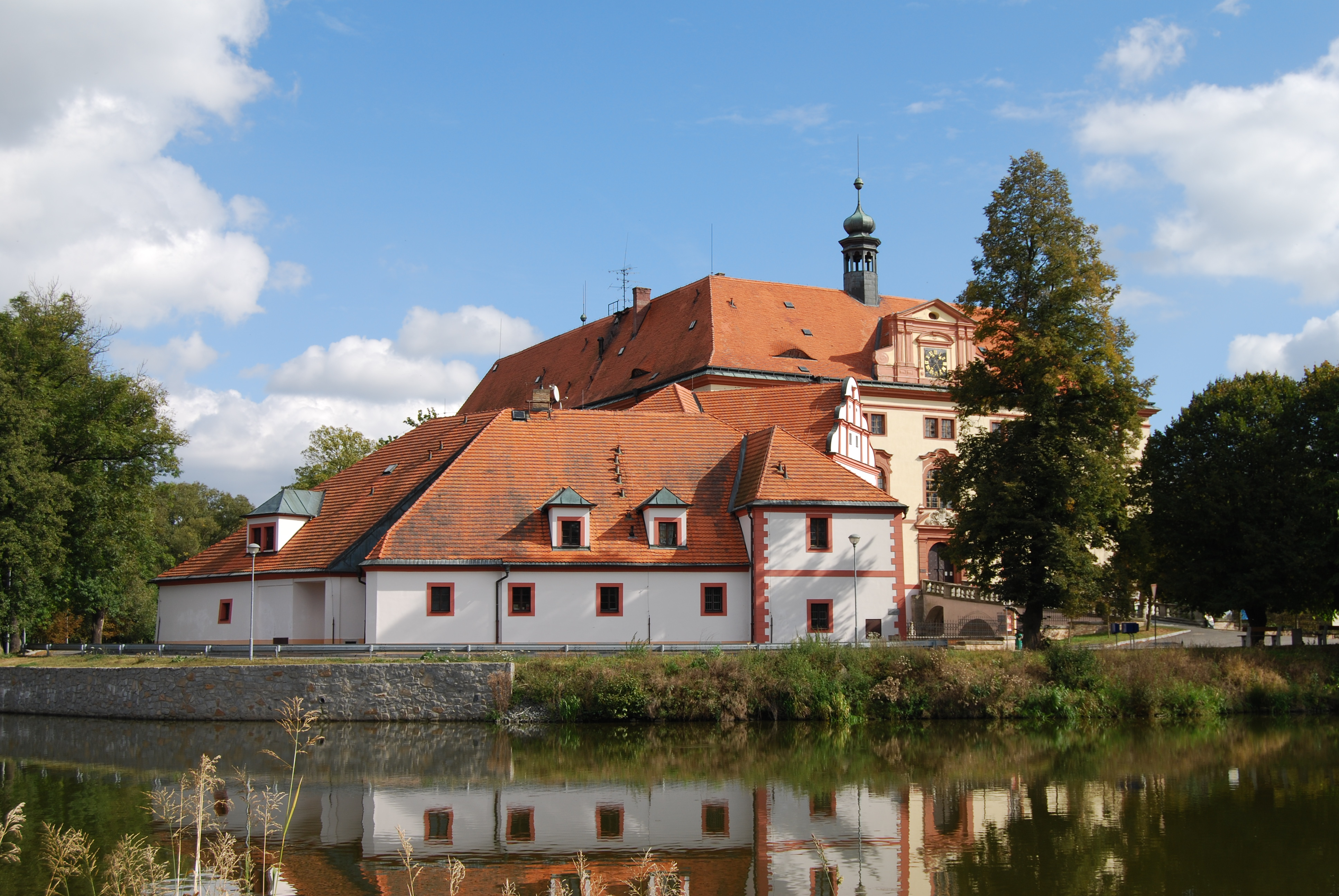 "Stará tvrz" in Lnáře town, Strakonice District, Czech Republic. In front is "Zámecký" pond.